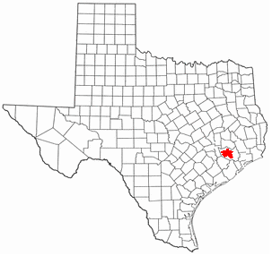 Map of Texas showing Houston